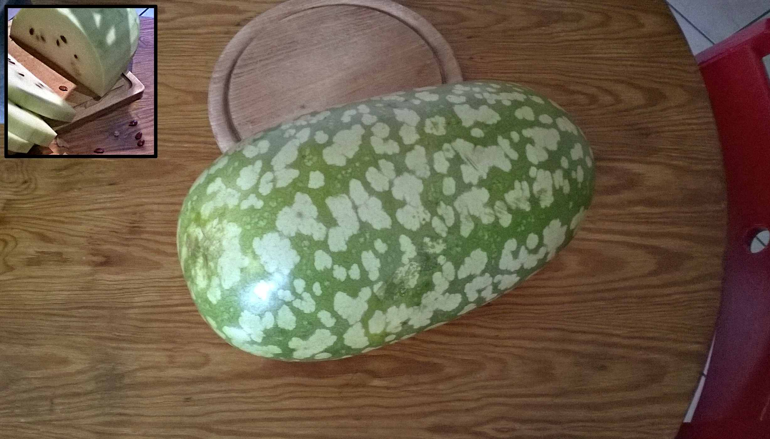 Citrullus lanatus var. citroides, variety of watermelon used in southern France to make jam (not edible raw). The fruit displayed here weighs 6 kg.